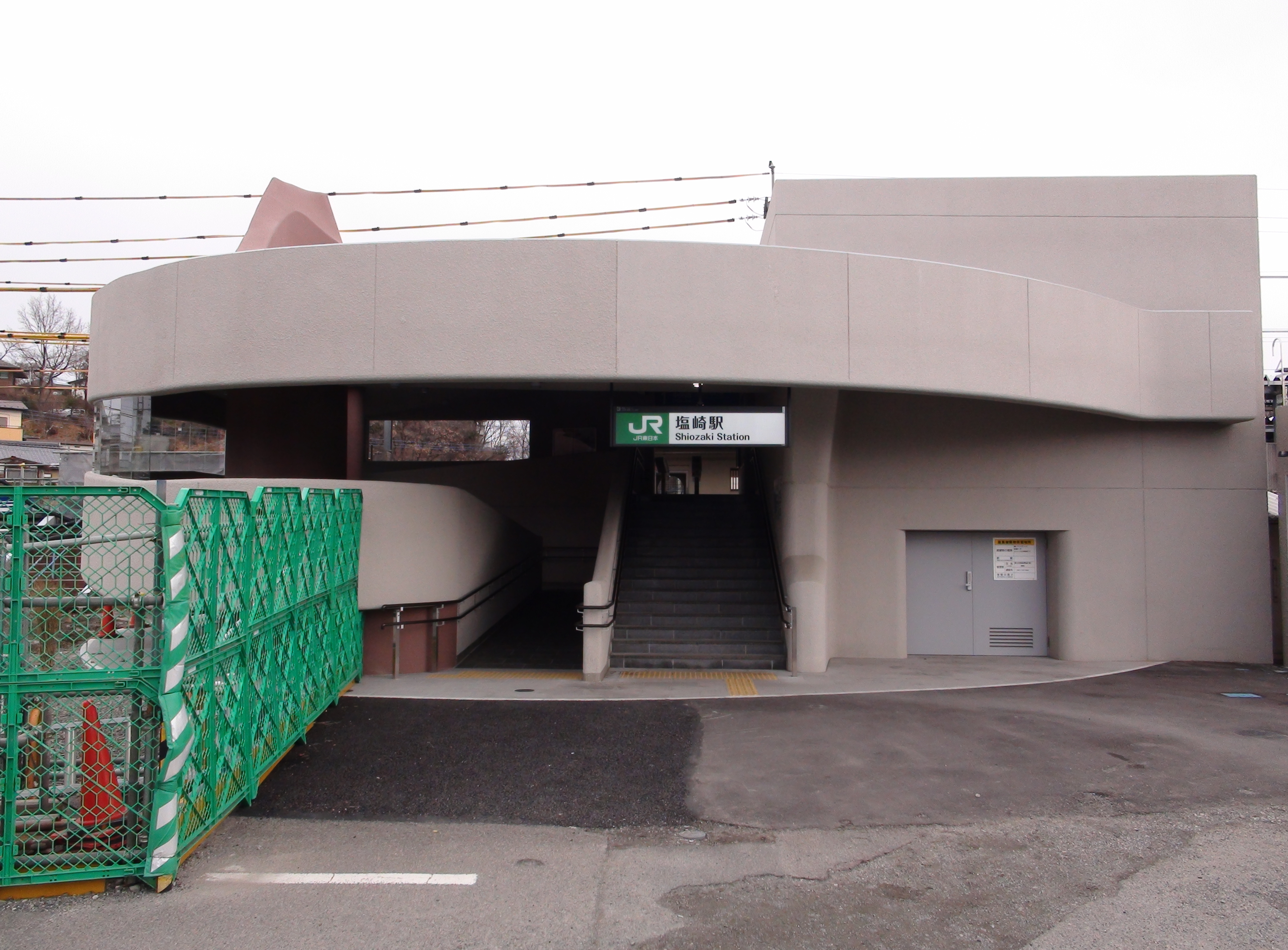 Shiozaki Station 1 Jan. 2015. Yamanashi Prefecture Kai Futaba district.